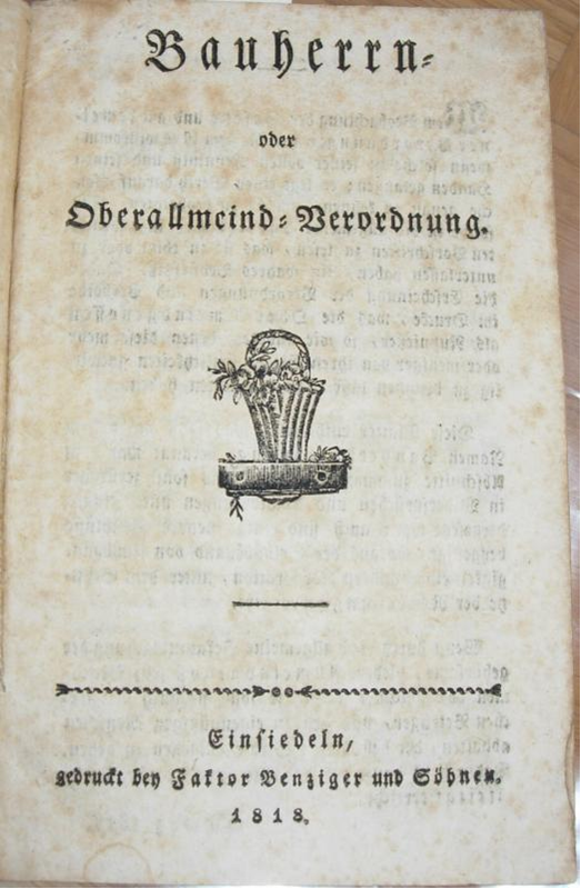 Oberallmeind Verordnung 1818, Schwyz, Schweiz